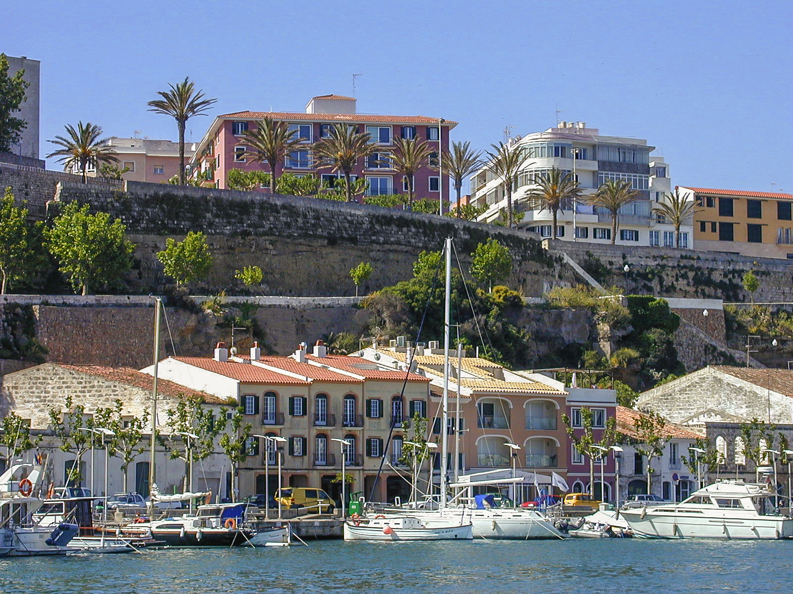 Maó harbour